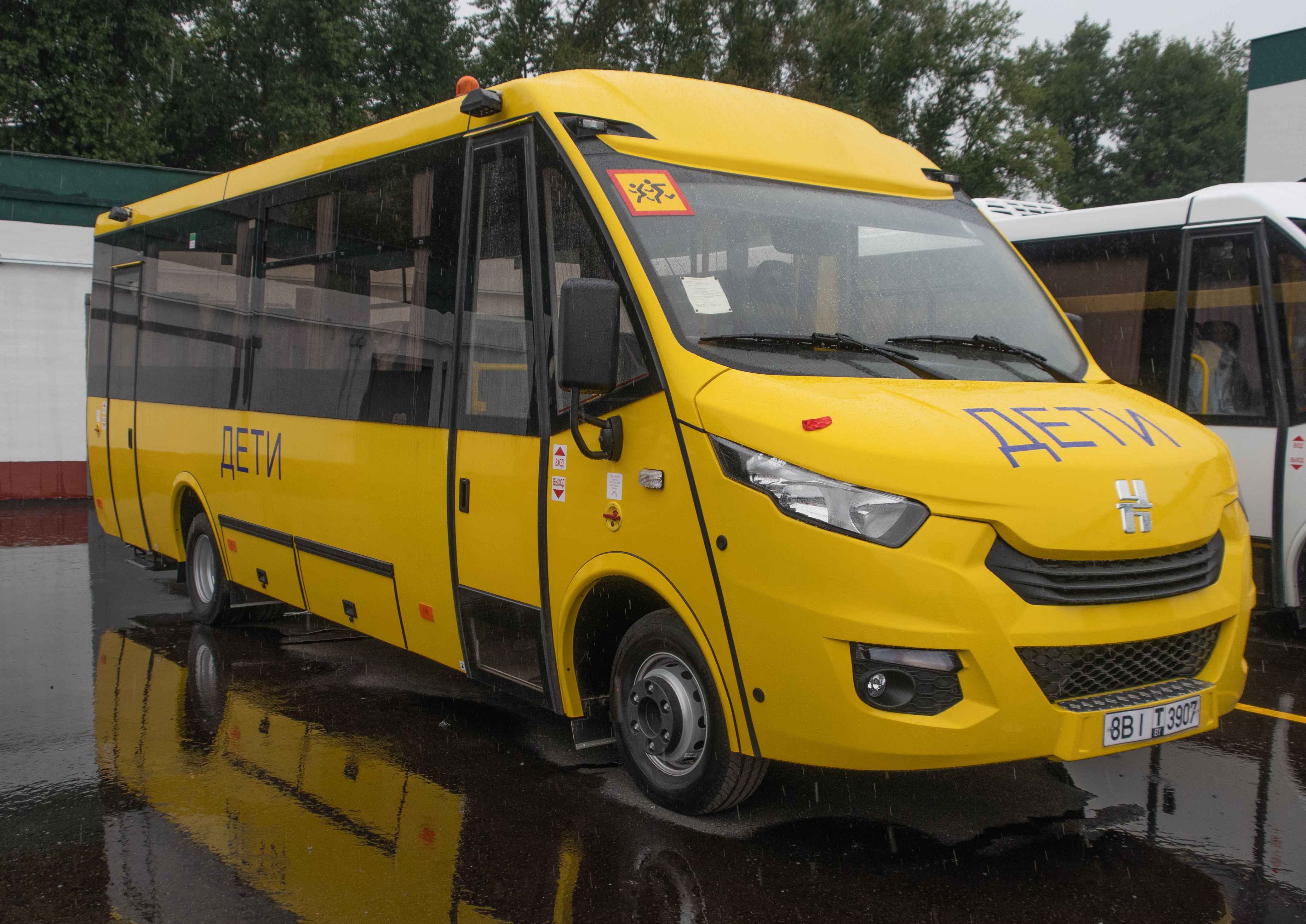 Neman-4202 bus. MZKT open day 2019, Minsk, Belarus